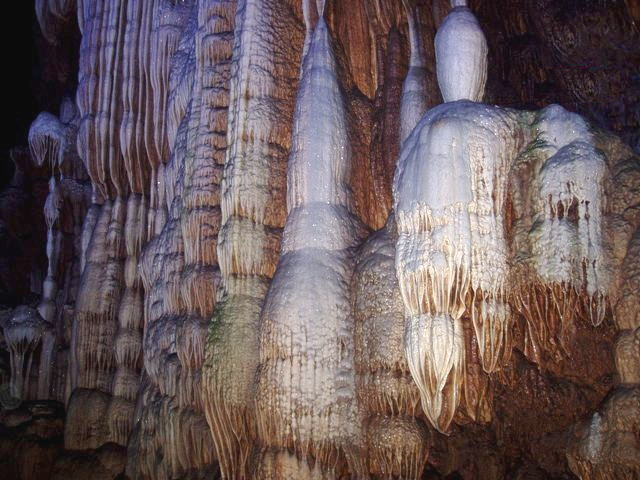 Seven-Star Cave — a Karst cave with limestone formations, near Guilin in Guangxi Province, southern China. Within the UNESCO South China Karst World Heritage Site.